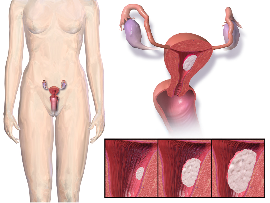 Endometrial Cancer. See a full animation of this medical topic.